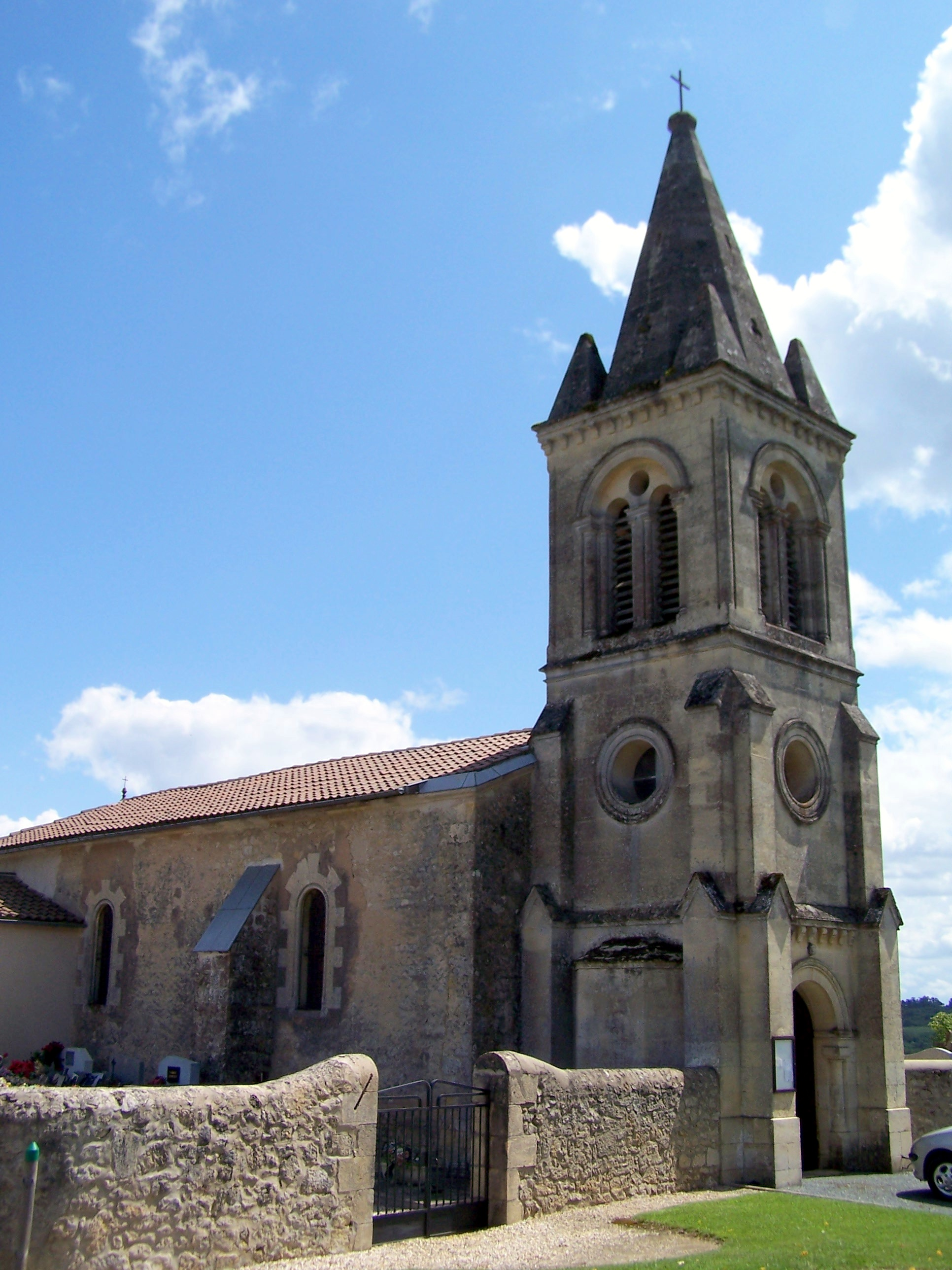 Church of Laroque (Gironde, France)